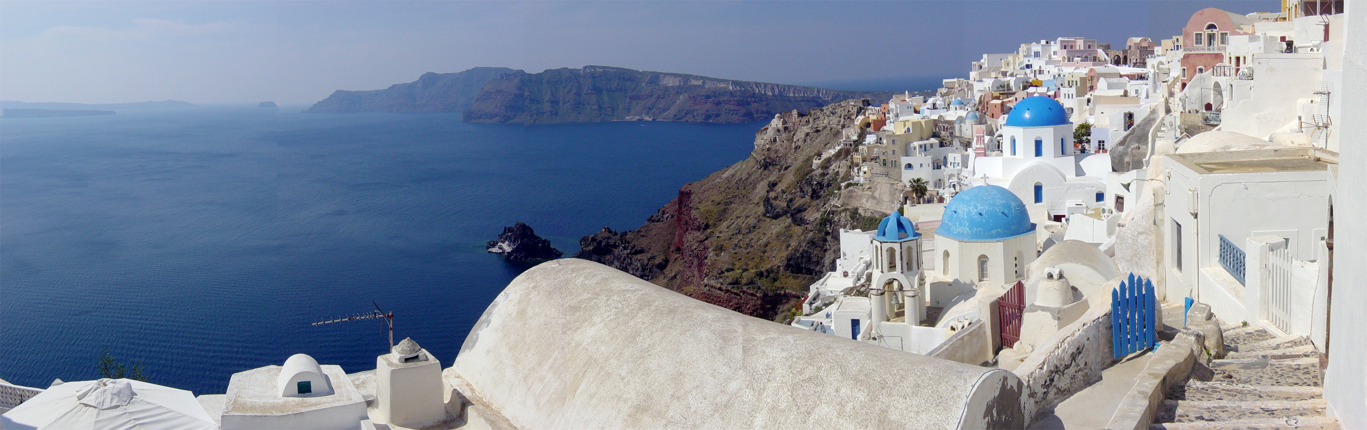 Partial panorama of Santorini and Thera caldera